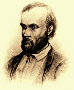 Earliest known image of Aleksis Kivi. Drawn in 1873 almost certainly by Albert Edelfelt (1854–1905). Source: library of University of Helsinki, HELMI database [1]. Scanned from a post card in the 1980s.